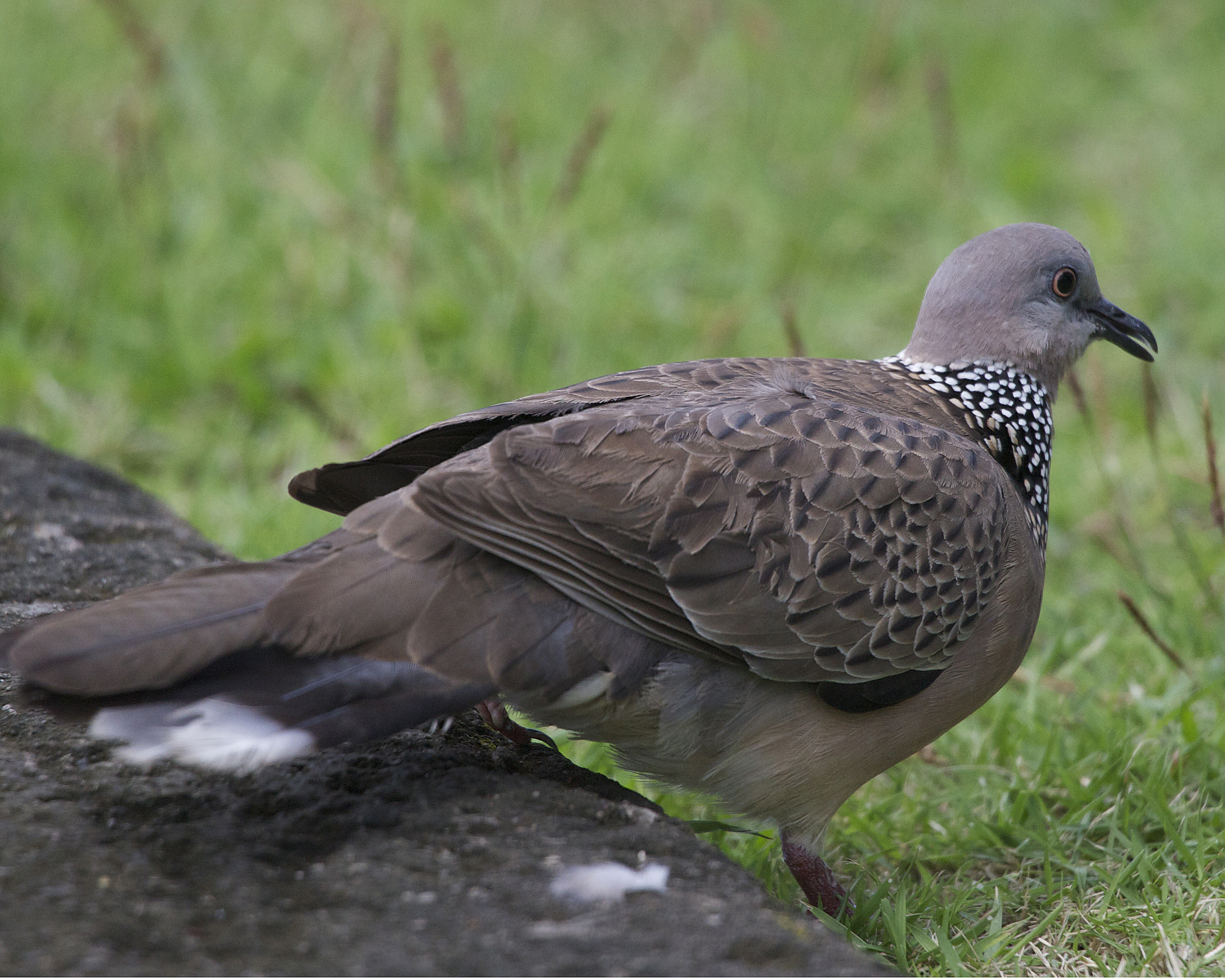 Spotted Dove Streptopelia chinensis ssp Streptopelia chinensis tigrina Nusa Dua, Bali, Indonesia 1st. August 2010 690V7354